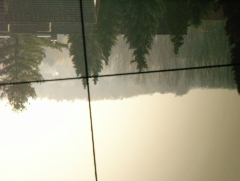 Look through a finderscope of a newtonian scope.